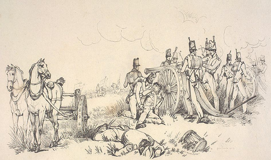 The artillery in Battle of Waterloo (18 June 1815). From Geo Jones 1816 // S. Mitan Aquafe // 13 // Published by J. Booth, Decr 23, 1816.